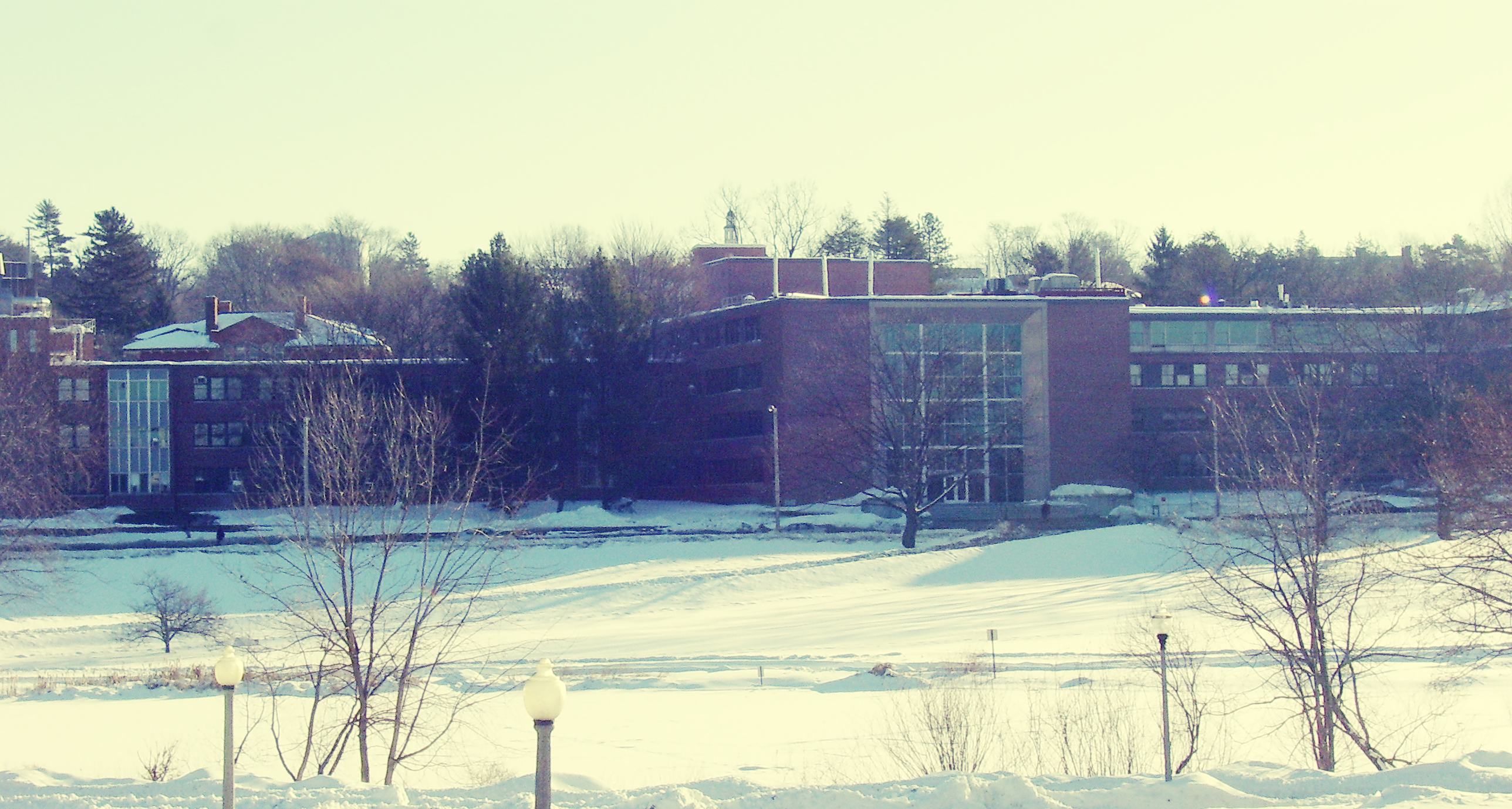 Facade of the Morrill Science Center, with Morrill IV, Morrill II, and Morrill III visible in the foreground